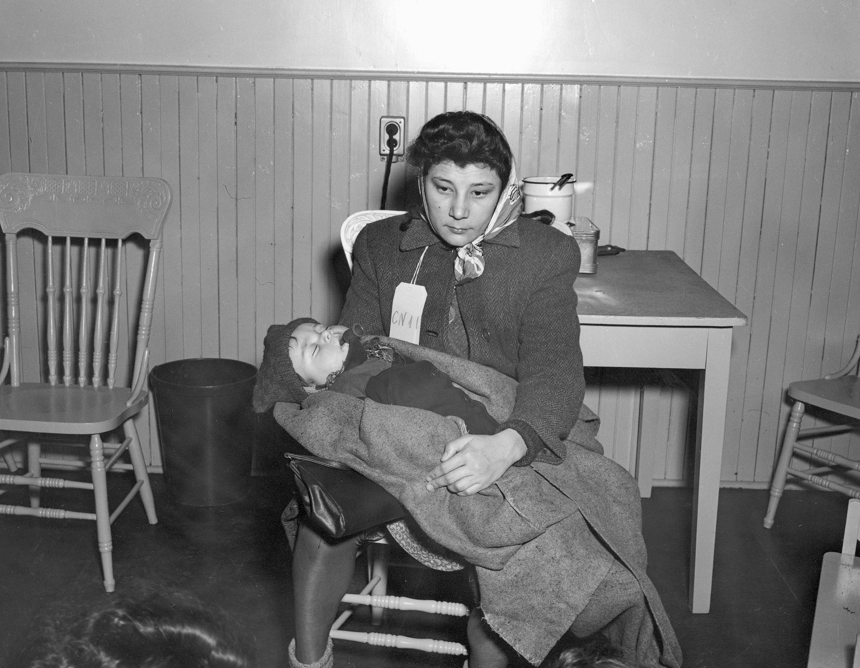 Immigrant Woman with Baby, Pier 21, Halifax, Nova Scotia, Canada, 1948.